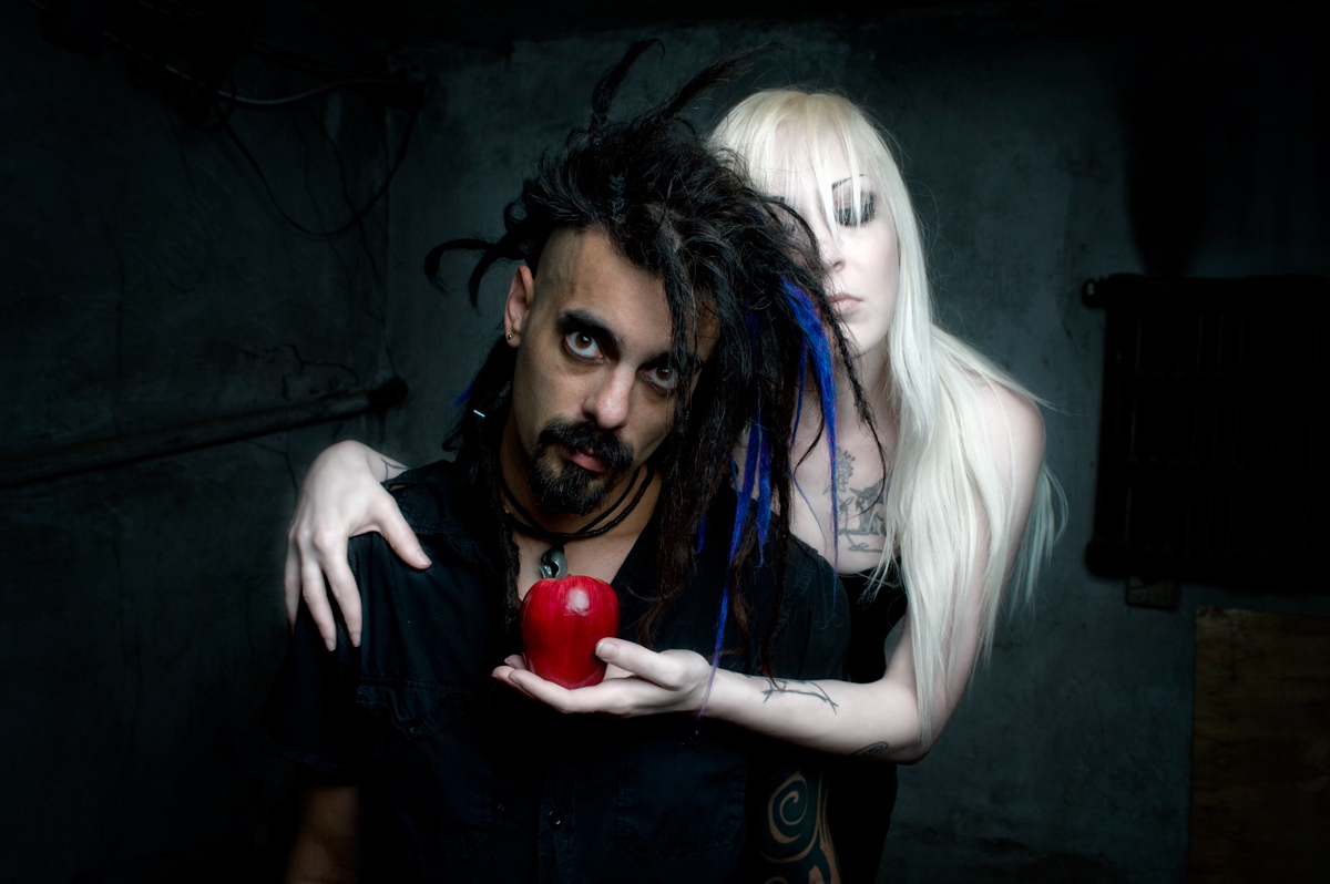 Ego Likeness